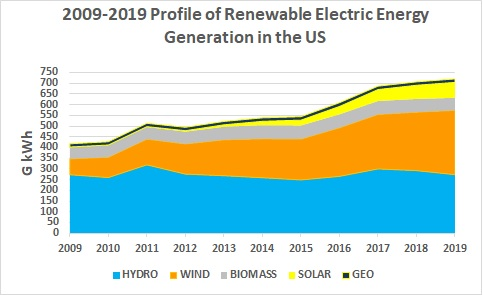 2009-2019 Profile of Renewable Electric Energy Generation in the US